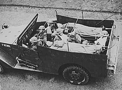 The Army uses "lend-lease" equipment now being used by British armoured forces, is a "white" scout car which has been converted into an ambulance for use with tanks. It has been proven to have a fine cross-country performance. Image source: Official British photo; BH-10301...